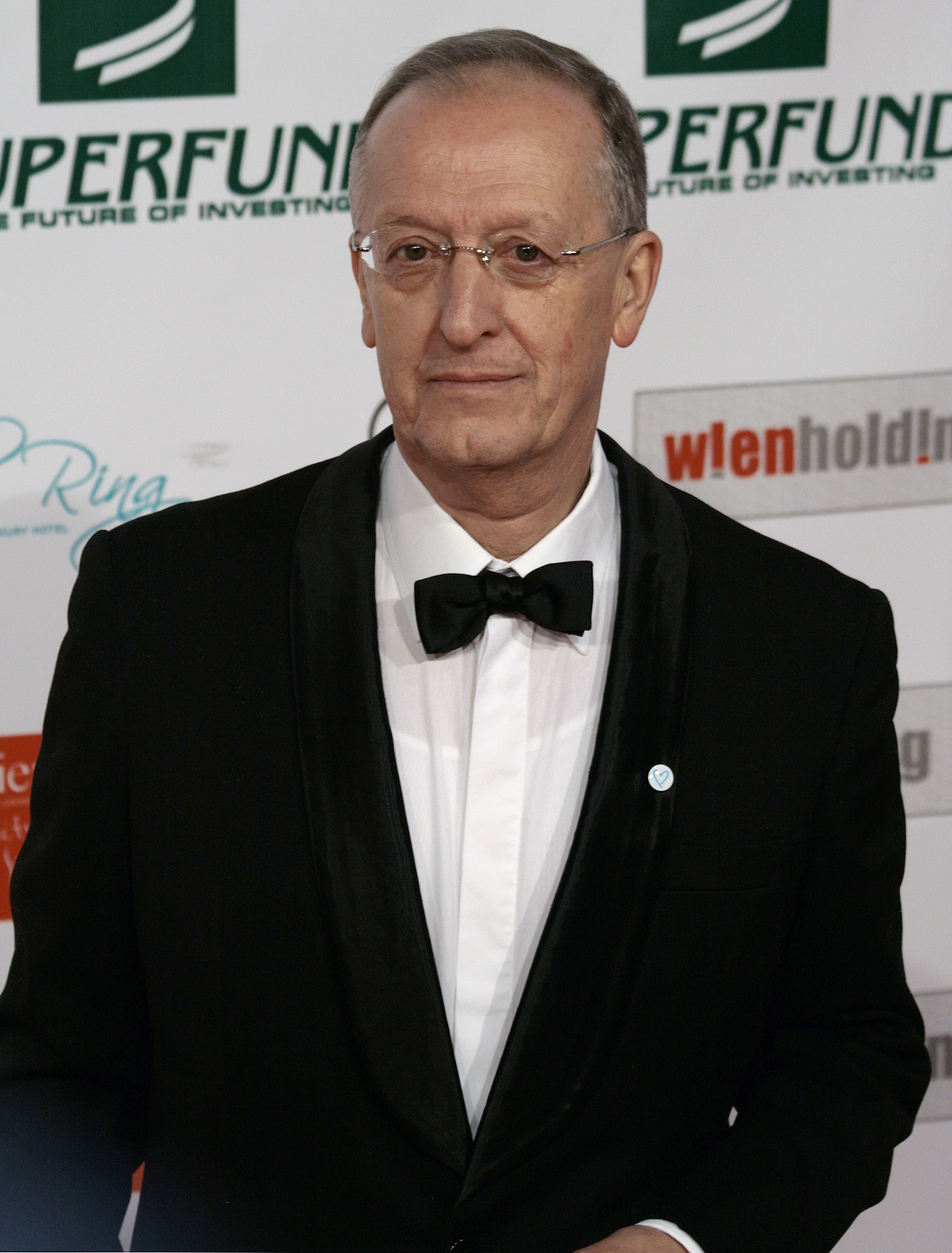 Antonio Maria Costa, Under-Secretary-General of the United Nations, at the Women's World Award 2009 (Wiener Stadthalle, Vienna, Austria).